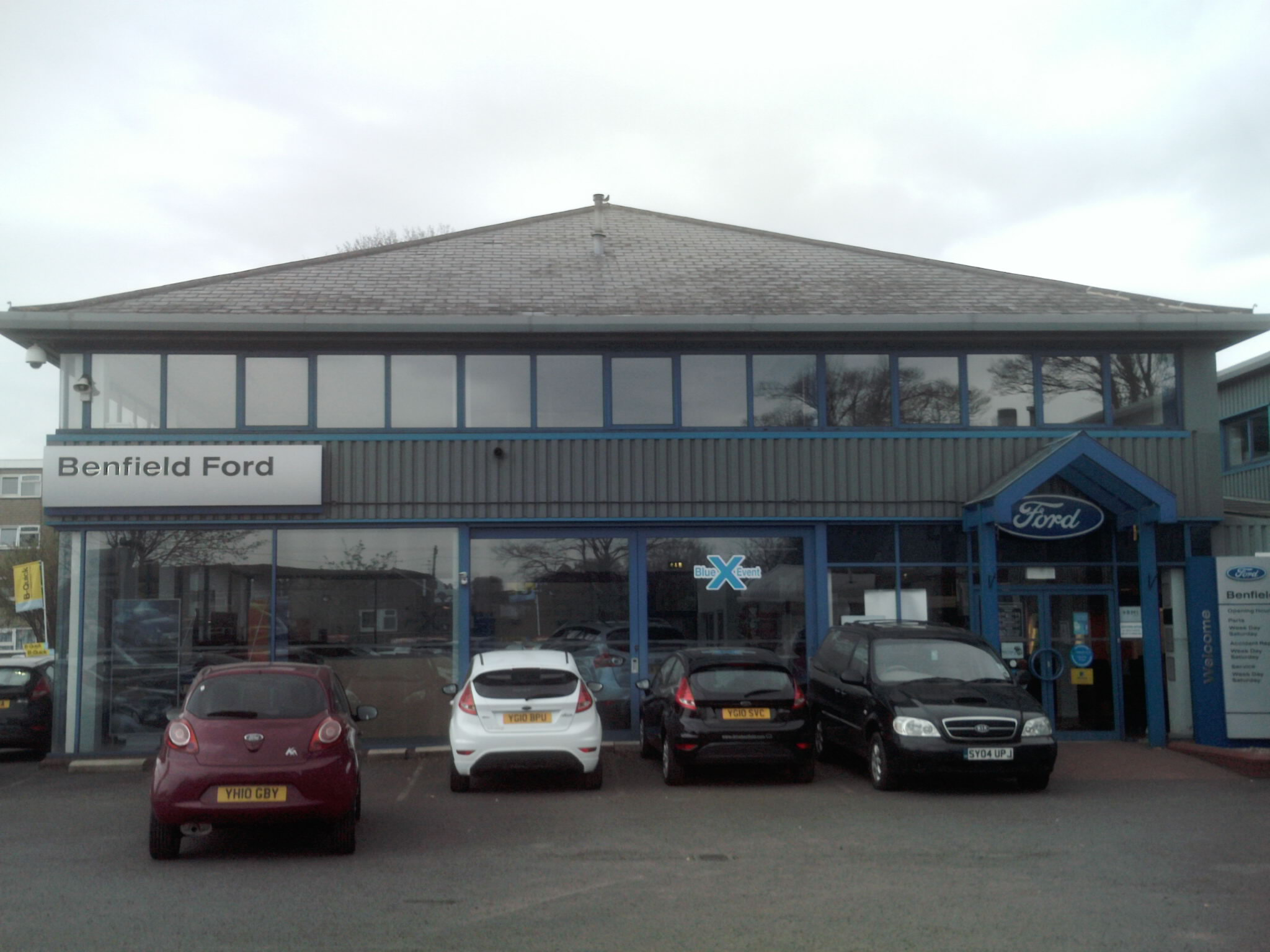 Benfield Ford (looking at the side that faces York Road) in Wetherby, West Yorkshire. Taken on the evening of Sunday the 18th of April 2010.